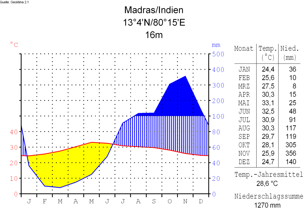 climate chart in the format by Walter and Lieth, metric, °Celsisus and millimeters, made with Geoklima 2.1